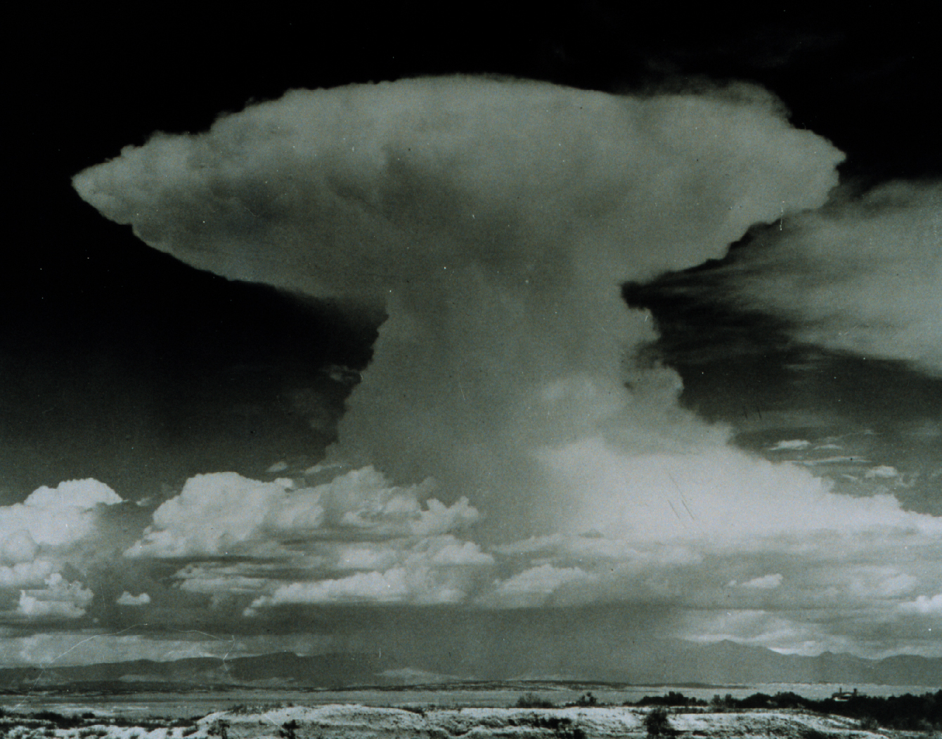 Thunderstorm cloud - Cumulonimbus in the western desert of United States